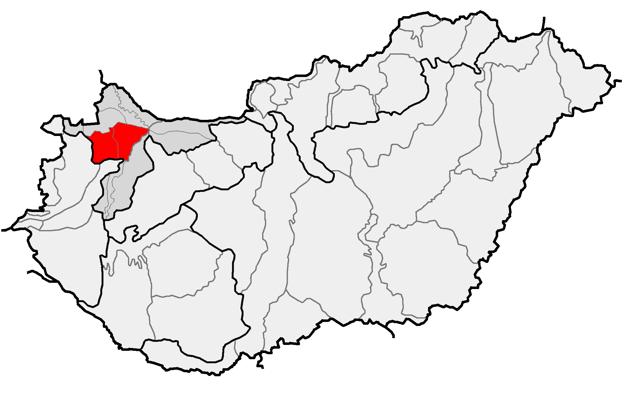 Location of geographical subregion of Rábaköz (red) and macroregion of Kisalföld (gray) within subdivisions of Hungary.